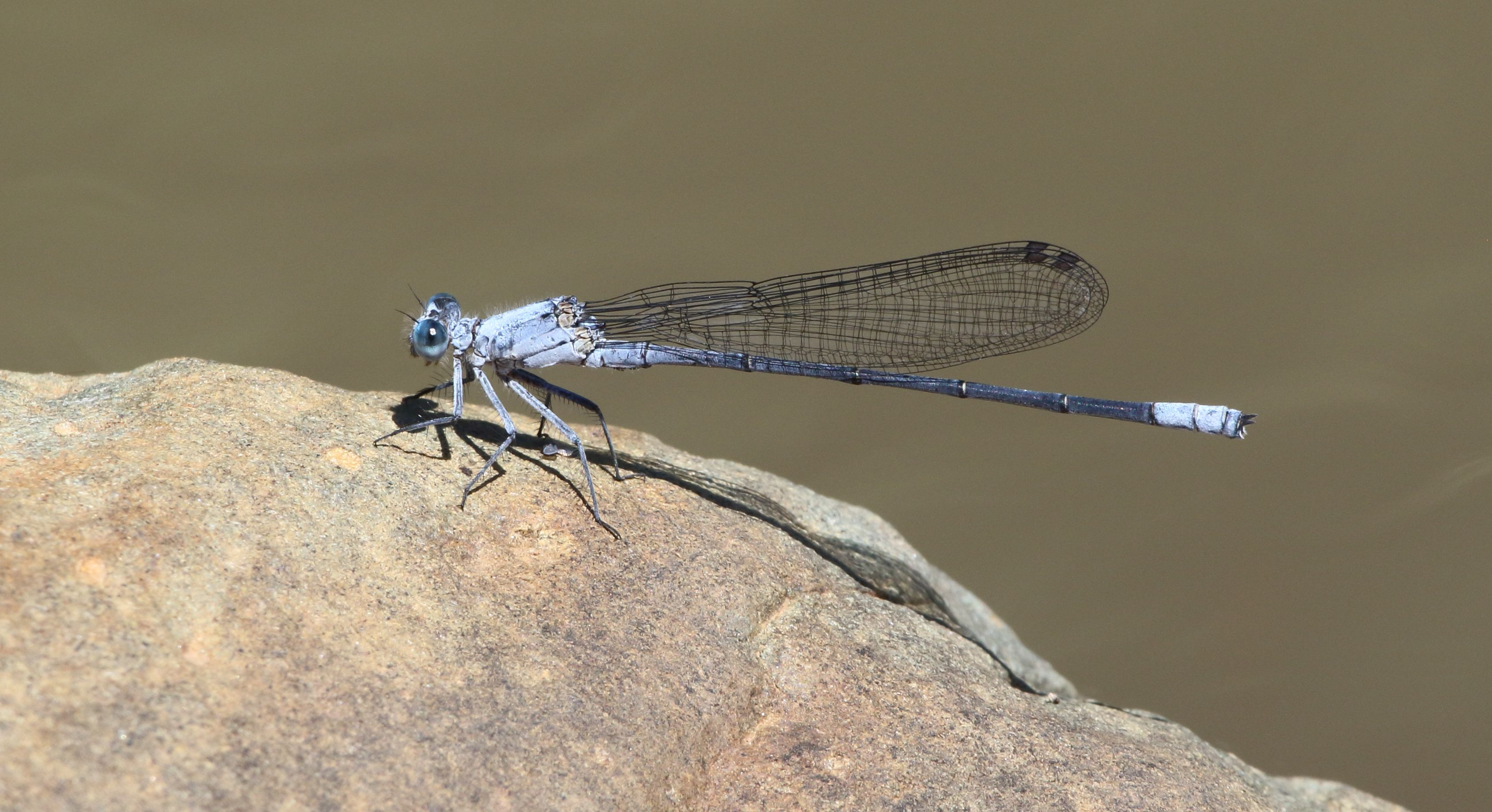 Male savanna riverjack Mesocnemis singularis on Nsuze River, KwaZulu-Natal. OdonataMAP record no. 21998